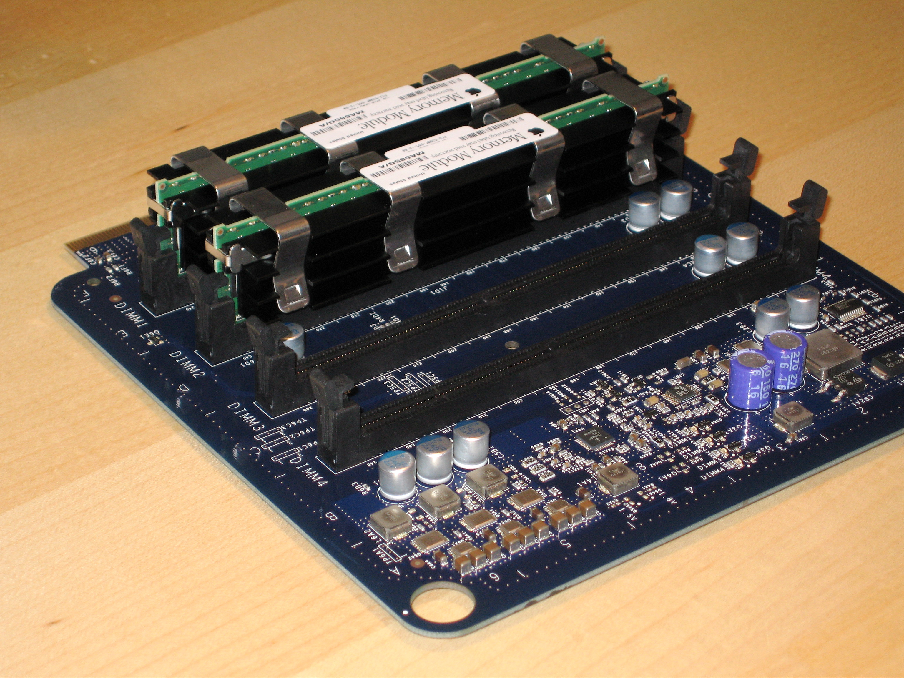 Mac Pro architecture, 4x RAM DIMM slots (2x filled)